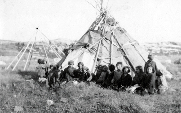 Photograph, Aboriginal encampment at Fort Chimo (Kuujjuaq), Ungava Bay, 1909, Hugh A. Peck, Silver salts - Gelatin silver process - 7.6 x 12.3 cm